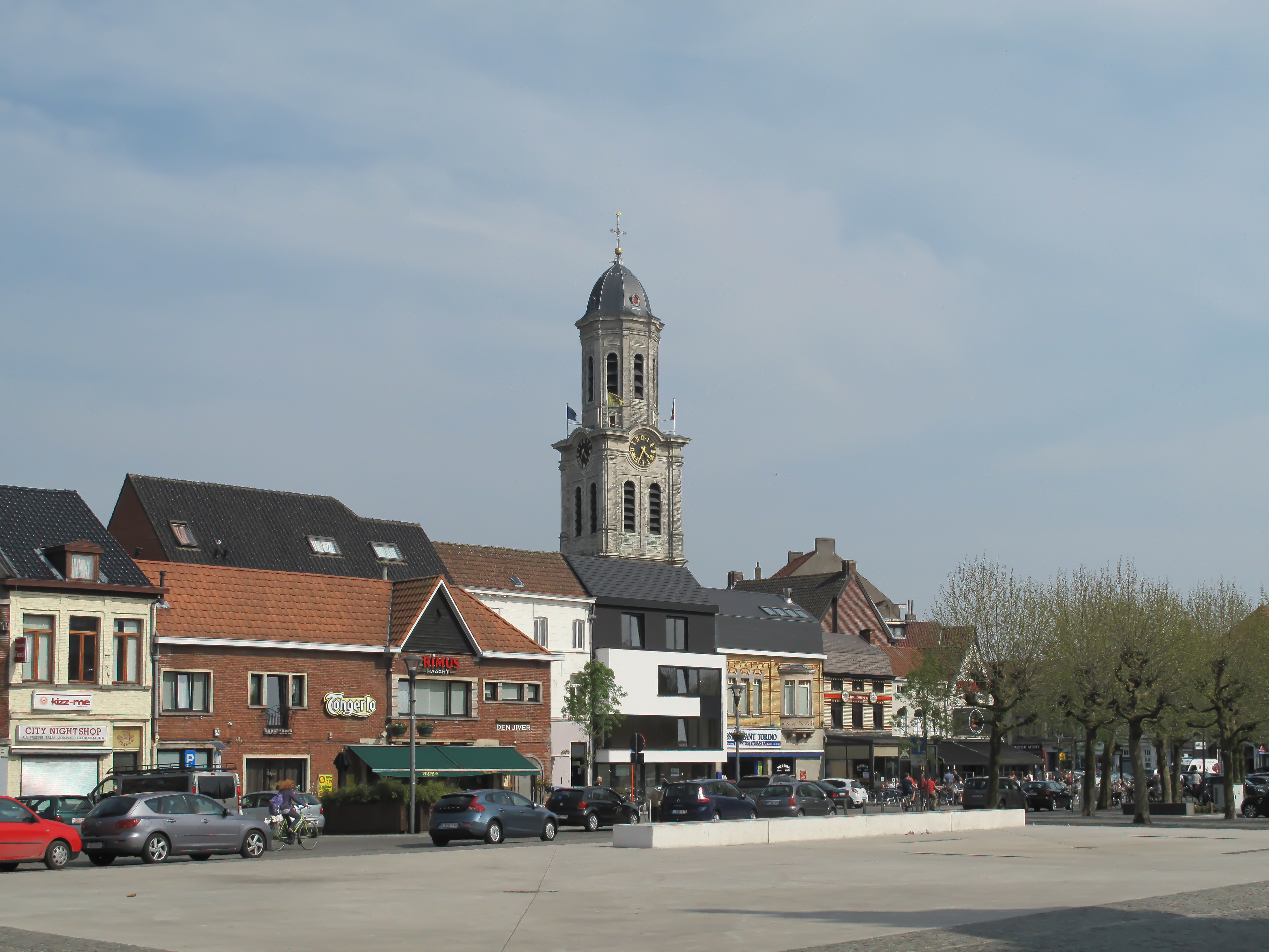 Lokeren, churchtower (de parochiekerk Sint Laurentius) from de Markt